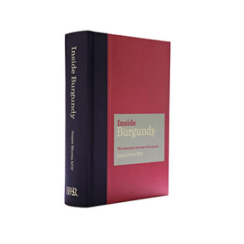 Inside Burgundy - The Book. Written by Jasper Morris. Published in 2010.